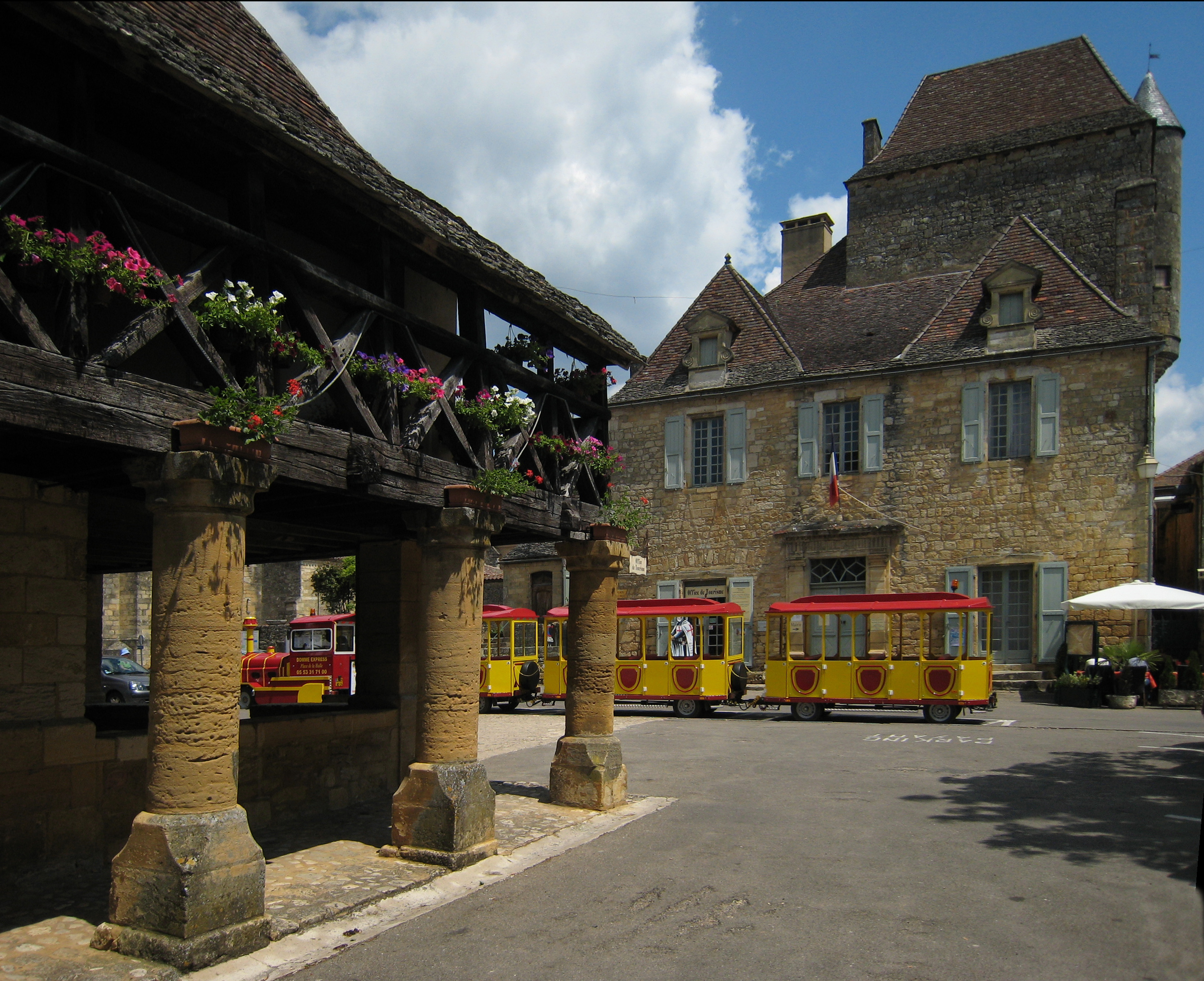 Village of Domme, situated in the Département Dordogne/France - old market hall and the govenor's house in the background.